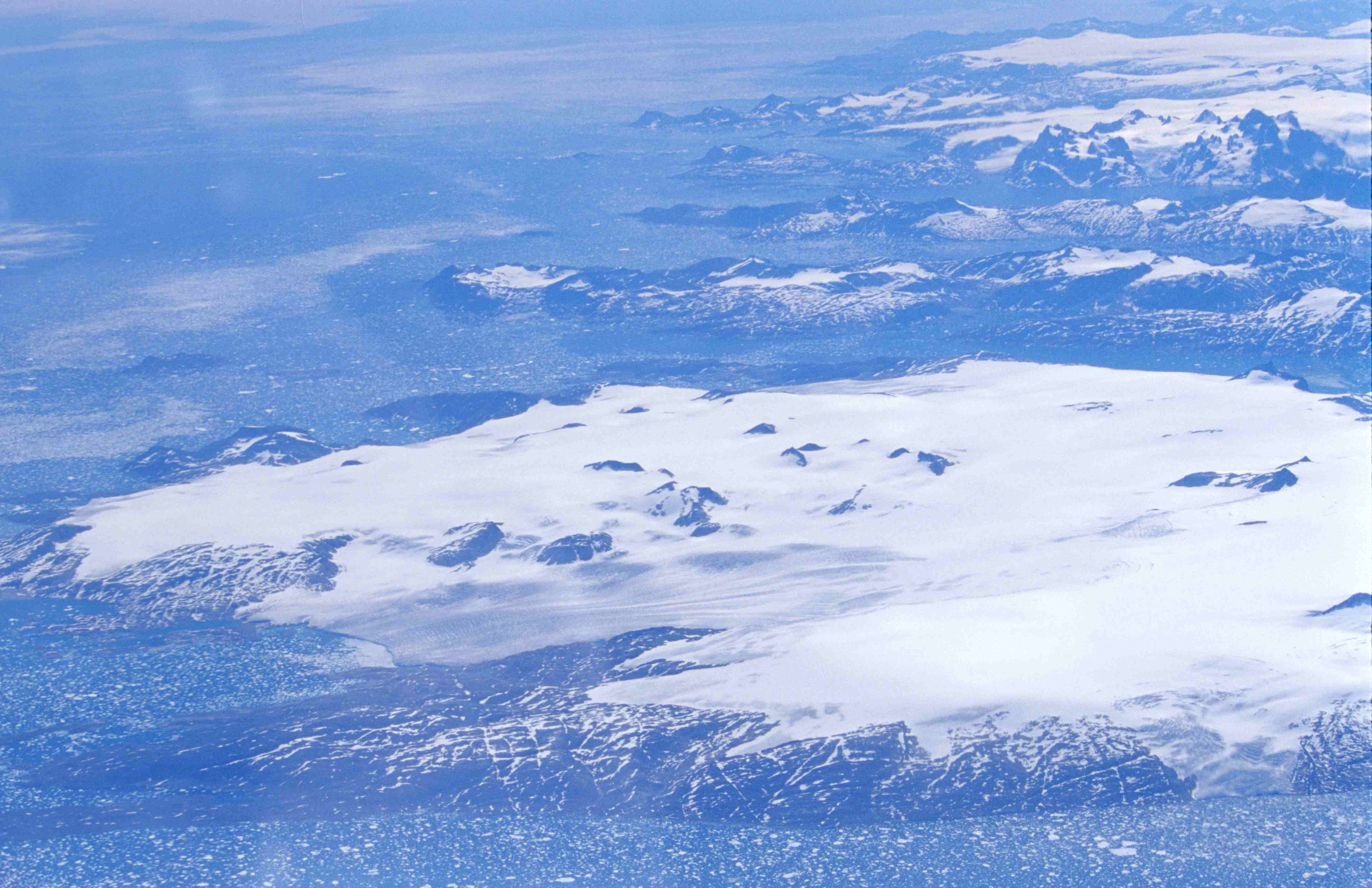 Southern tip of Greenland with glacier from the cockpit of an Airbus A330 (height about 11,500 m)